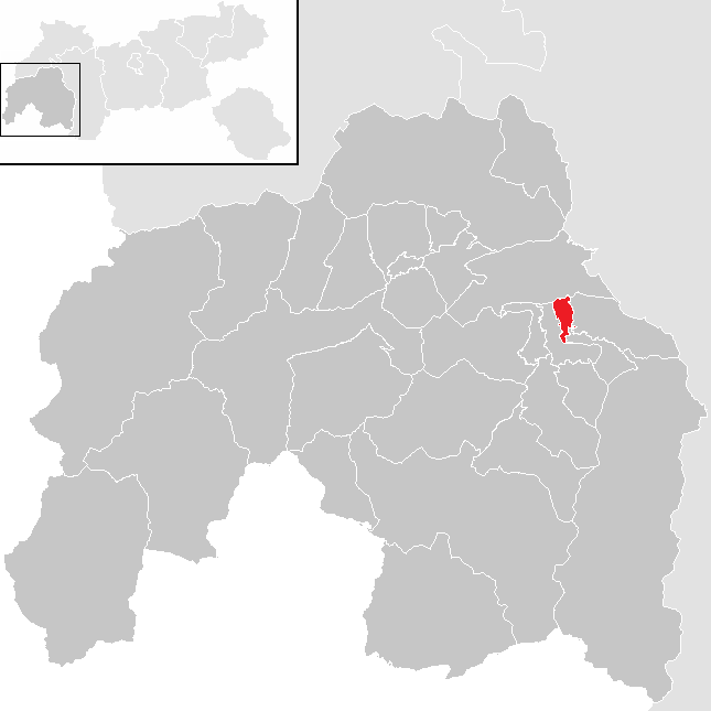 District Landeck